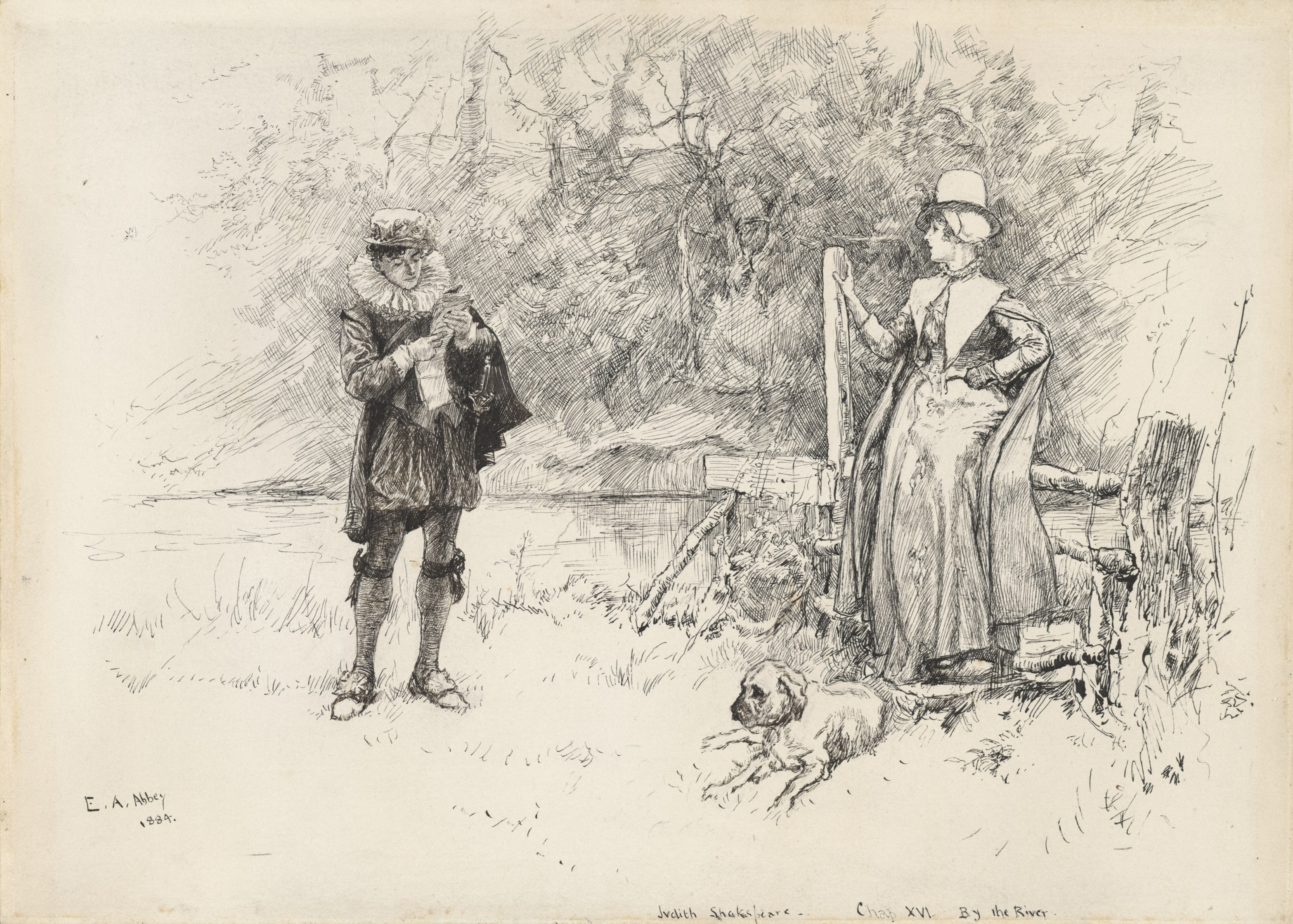 Illustration by Edwin Austen Abbey for Judith Shakespeare: Her Love Affairs and Other Adventures by William Black. New York: Harper, 1884. Pen and ink over graphite underdrawing with scraping out. One of the leading lights in America's Golden Age of Illustration (1870-1930), Edwin Austin Abbey (1852-1911), created this pen and ink drawing for Judith Shakespeare, a novel published in 1884. Abbey's rapidly maturing technique and style are evident in this scene drawn with remarkable detail--as seen in his rendering of Judith and her companion, their clothing, controlled use of light and tone, and balanced placement of figures. In the story, Shakespeare's second daughter unwisely allows a young man to have a preliminary look at her father's manuscript of The Tempest. - from the Library of Congress website